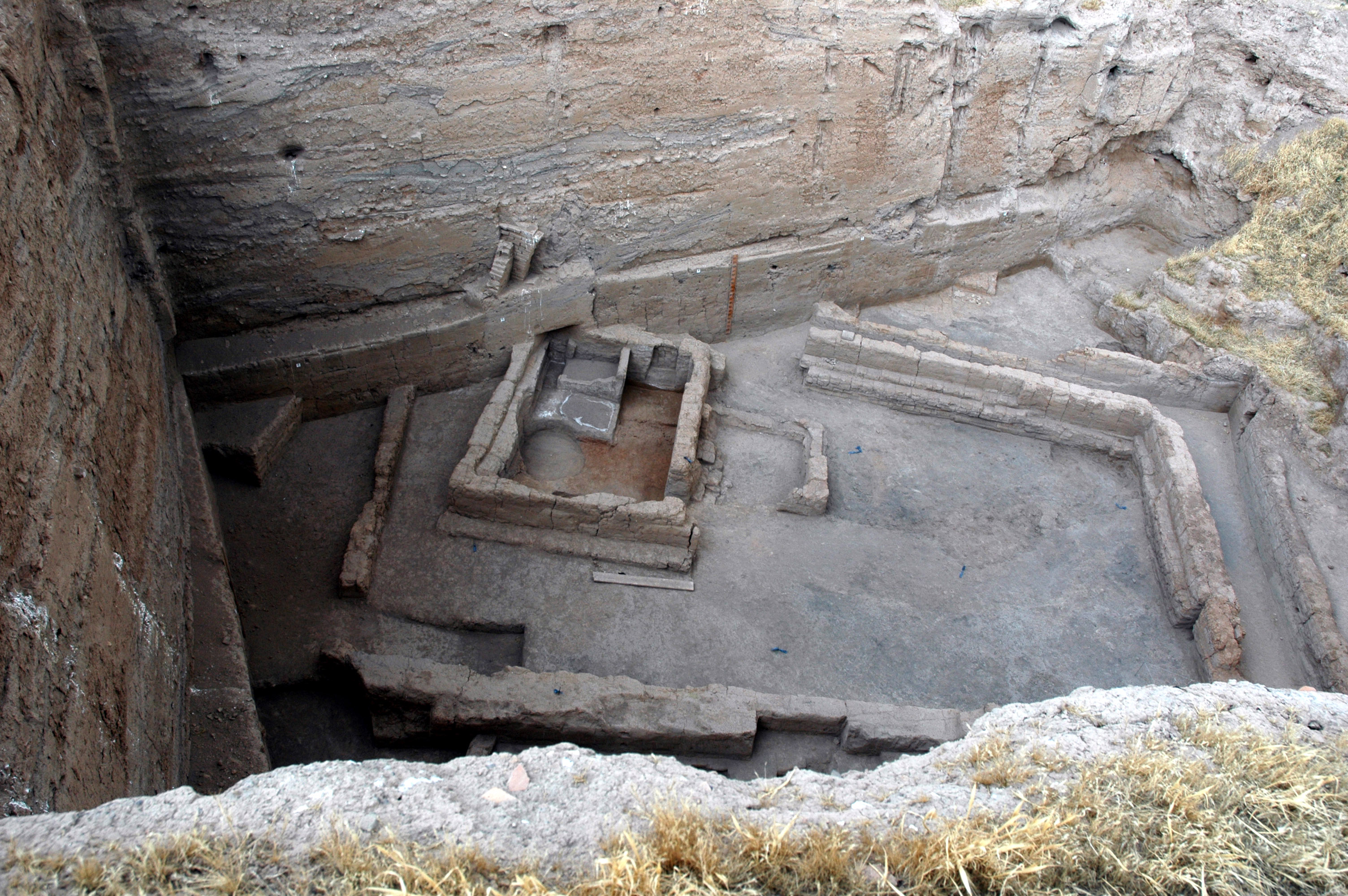 archaeological excavations, Tell Barri - Kahat in 2004